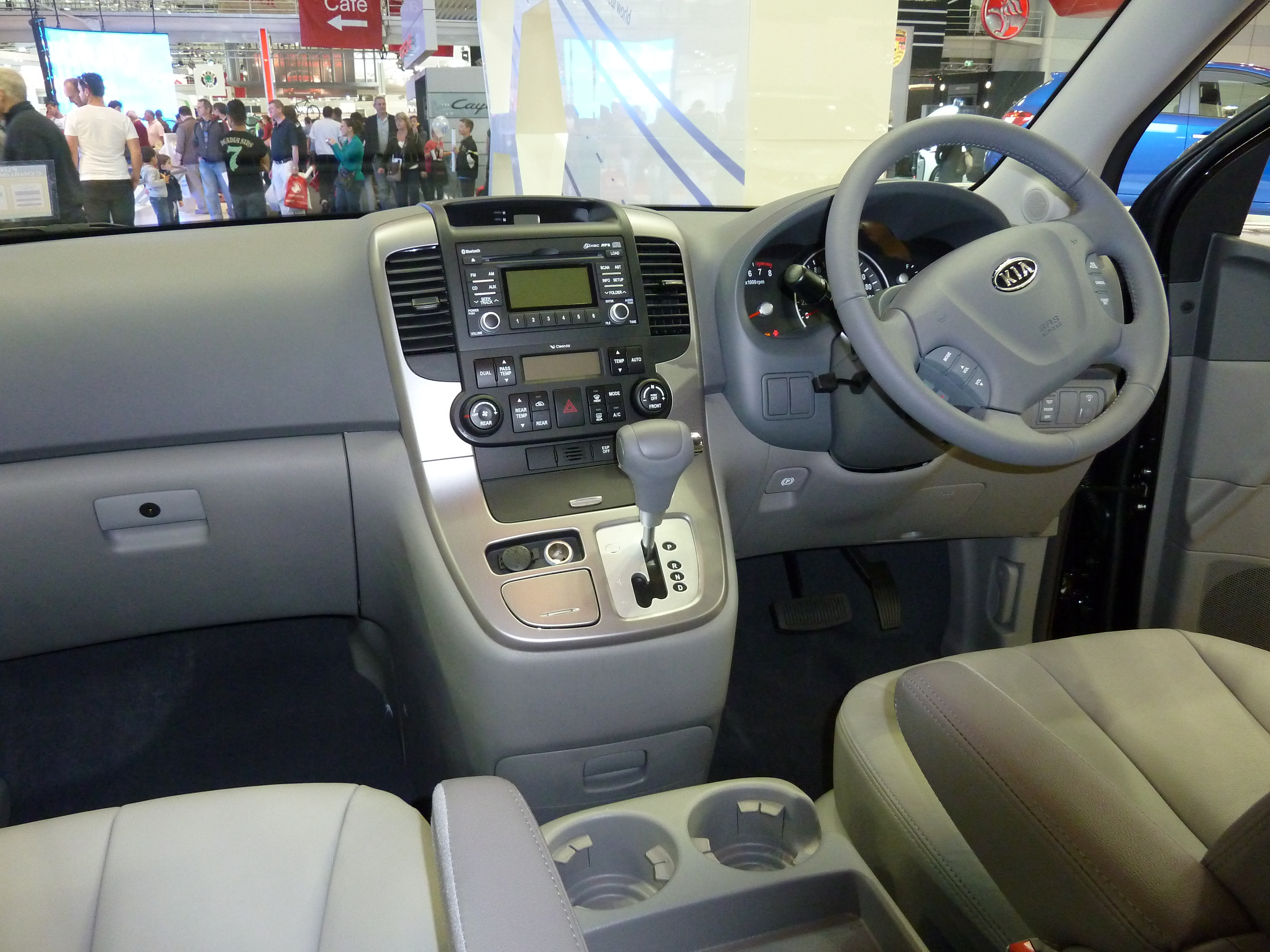 2010 Kia Grand Carnival (VQ MY11) Platinum van. Photographed at the 2010 Australian International Motor Show, Sydney, New South Wales, Australia.